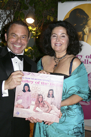 Security guard Kevin Norte takes a break to get Barbara Parkins' autograph at a benefit reading Valley of the Dolls in Hollywood on June 13, 2006.